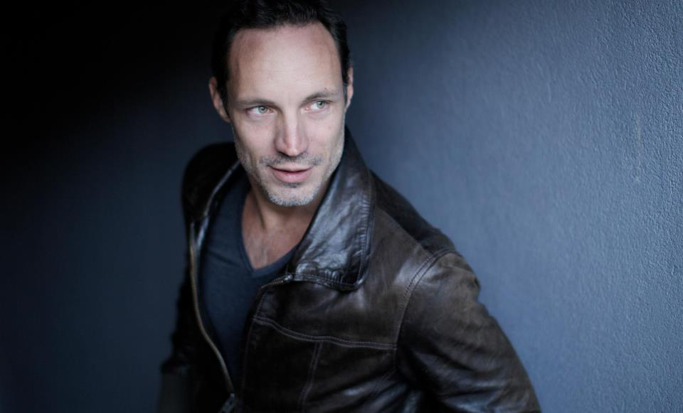 Grégory Questel